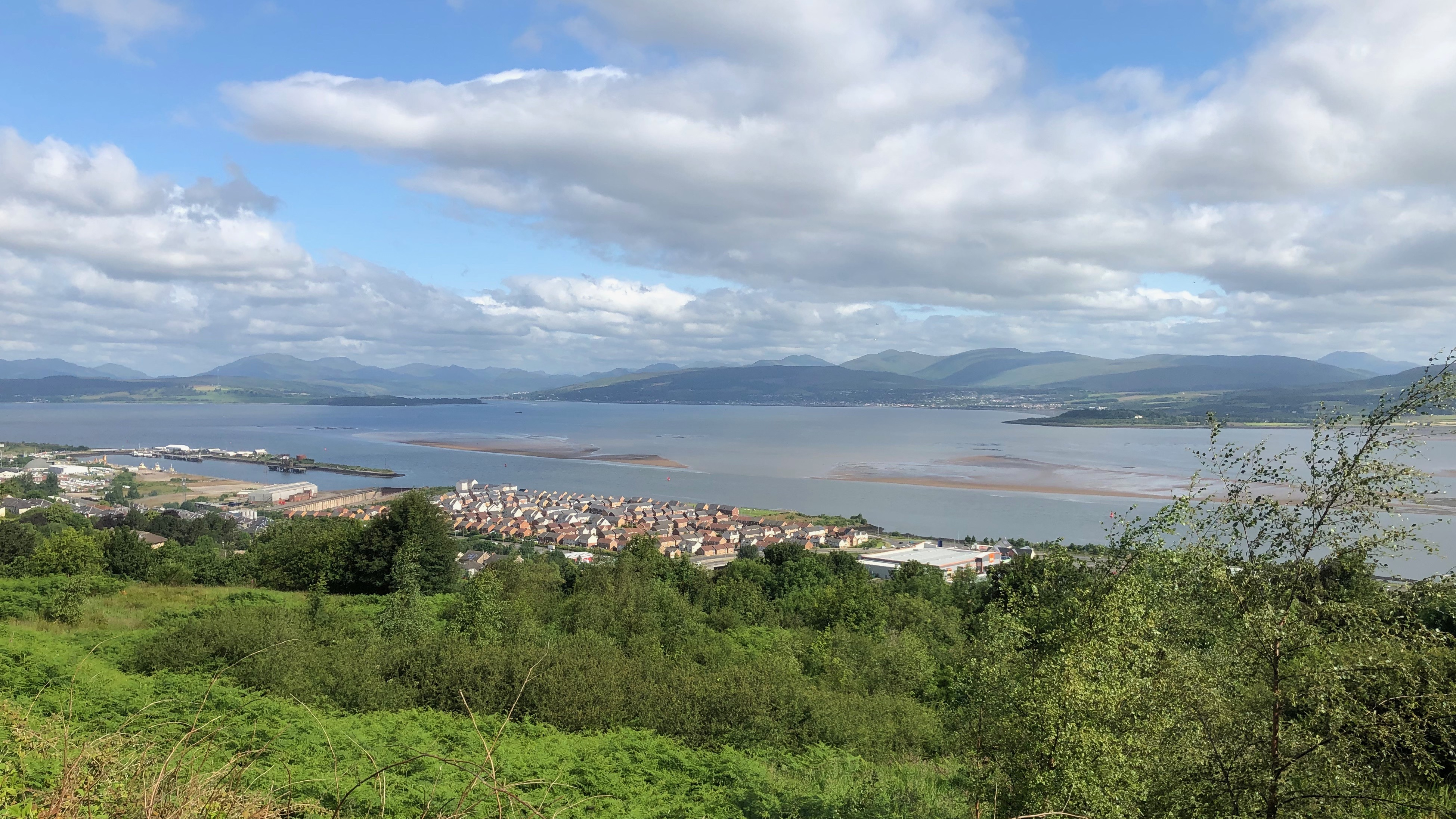 View northwest over the River Clyde estuary to the Tail of the Bank where it deepens into the Firth of Clyde. The dredged navigable channel goes along the south shore past developments on the former Lithgows shipyard in Port Glasgow, and Greenock's Great Harbour. The Greenock Bank forms a sandbank and shoal extending across the estuary to the Ardmore Point peninsula on the north shore, near Cardross. The Gare Loch is directly ahead, with the town of Helensburgh to its right, the Rosneath Peninsula to its left. The wreck of MV Captayannis is in line with the Gare Loch.